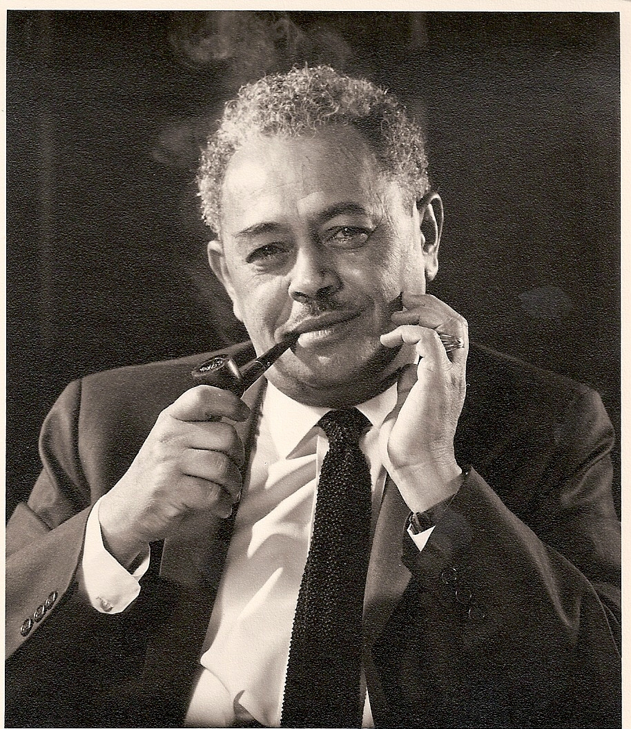 Jamal Mohammed Ahmed